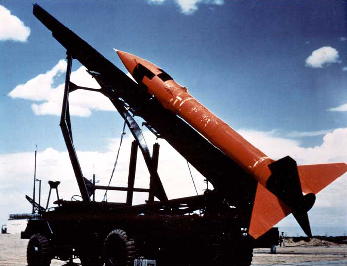 MGR-1 Honest John rocket picture, probably taken in the 1960s (judging from the photograph quality). MGR-1 Honest John rocket picture, probably ca. 1960s. )